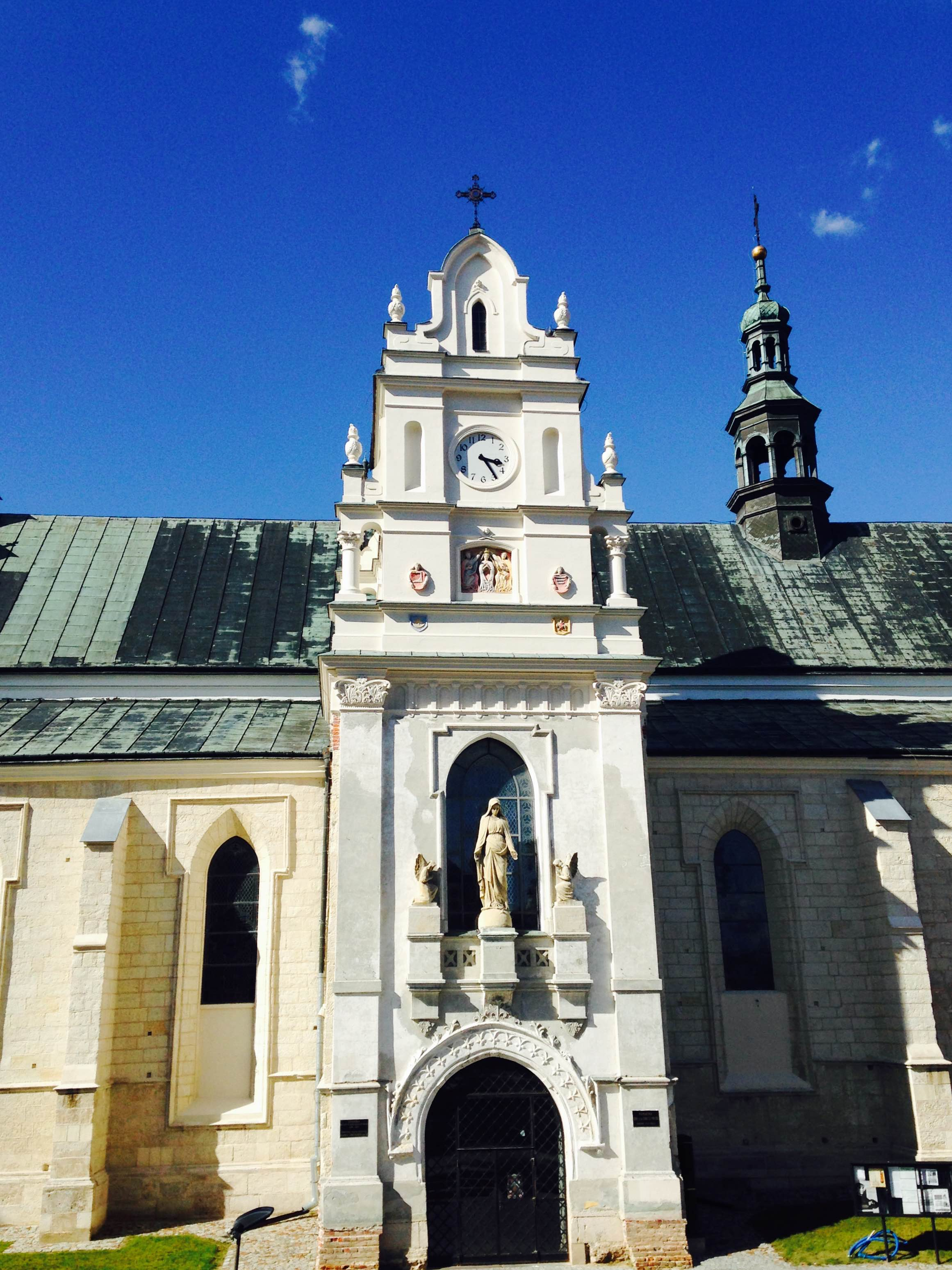 Church of the Assumption in Krasnik